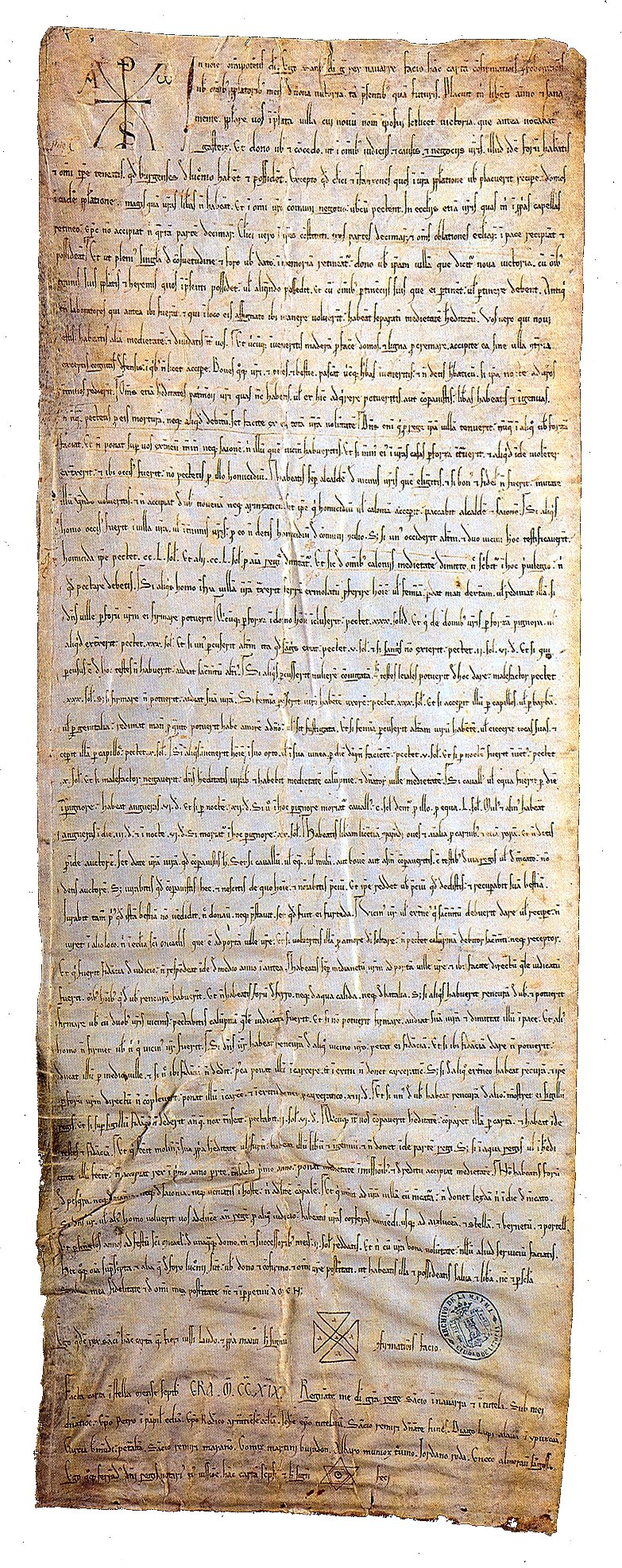 Foundational document of Vitoria in 1181 (nowadays Vitoria-Gasteiz, Basque Country, Spain)